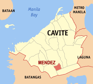 Map of Cavite showing the location of Mendez